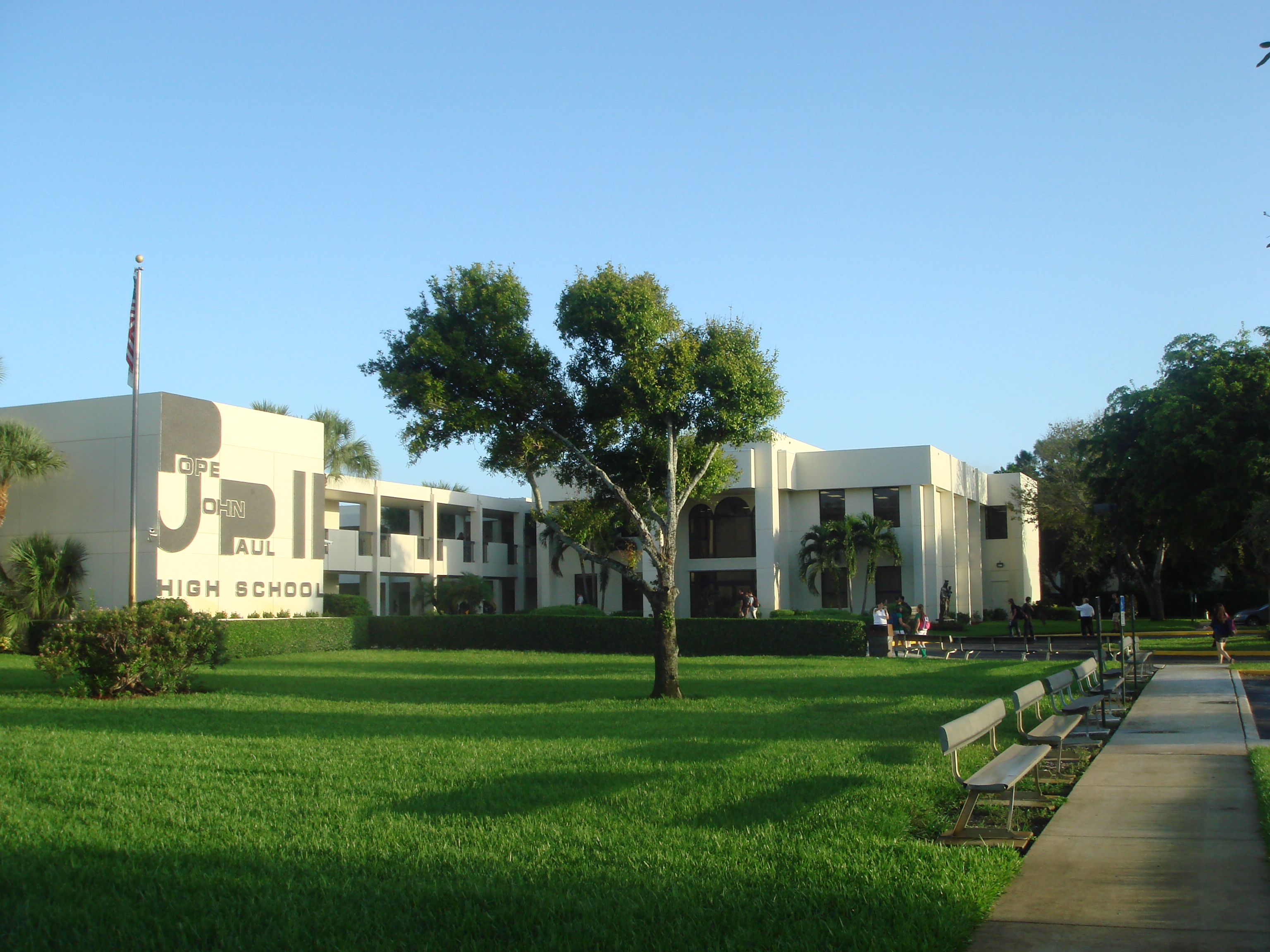 Front lawn of Pope John Paul II High School, September 2009